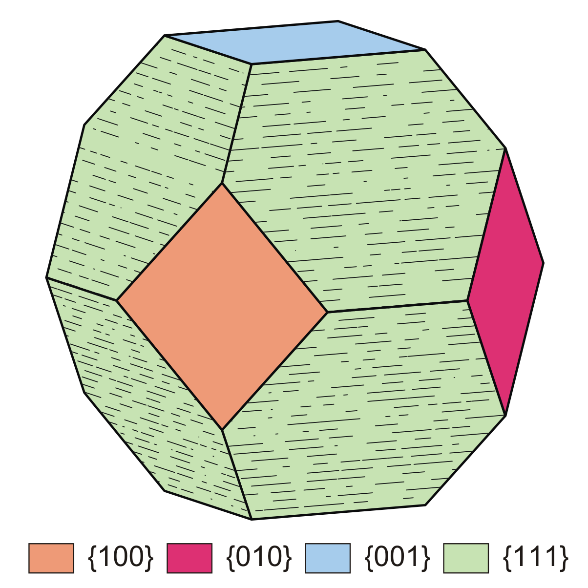 Drawing of a dipyramidal fluorapophyllite-(Na) crystal; reference: Hiroharu Matsueda et al., Natroapophyllite, a new orthorhombic sodium analog of apophyllite - I. Description, occurrence, and nomenclature, The American Mineralogist, Band 66, 1981, page 412